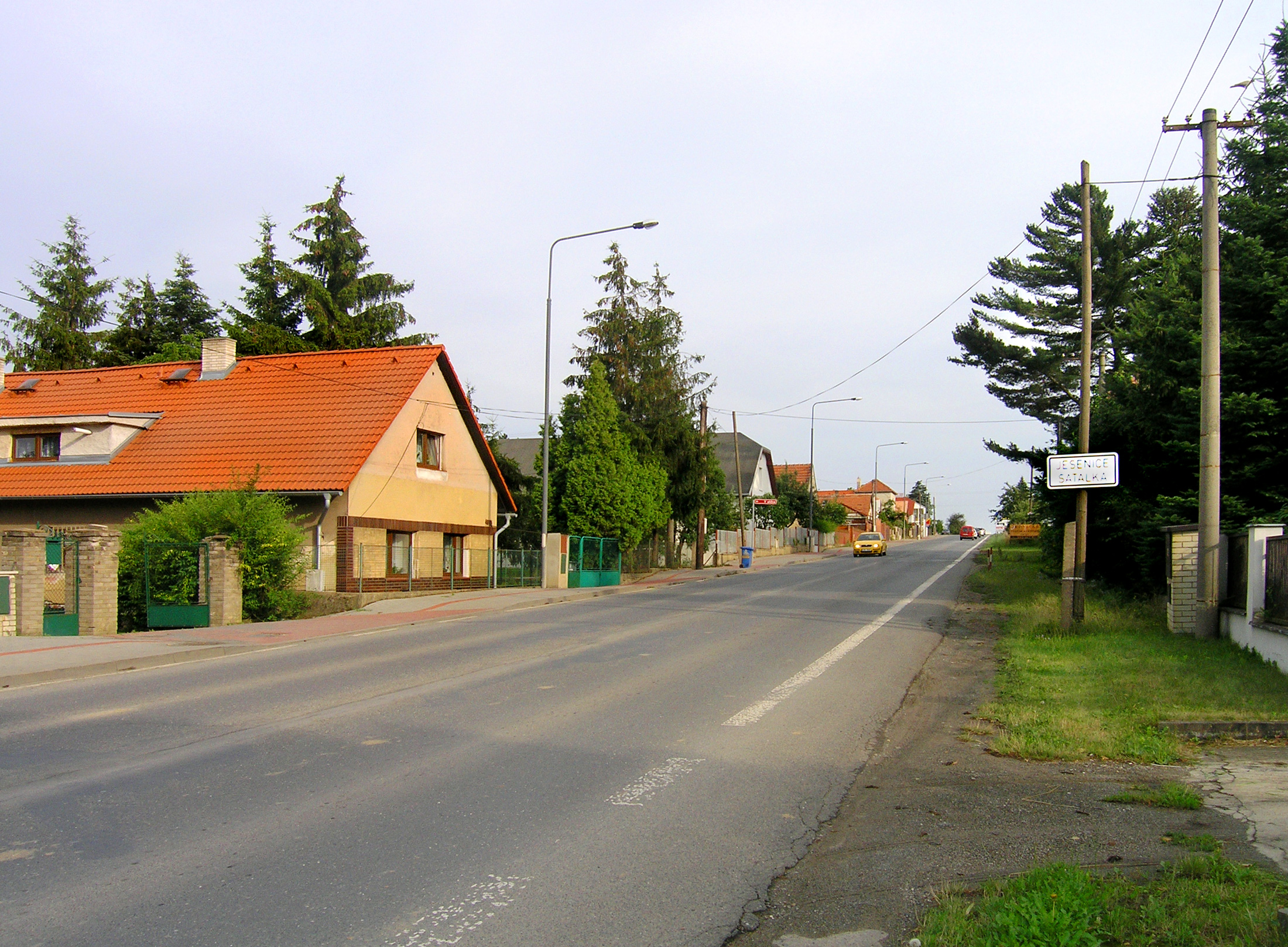 Local part Šátalka at the boundary of Vestec and Jesenice, Czech Republic